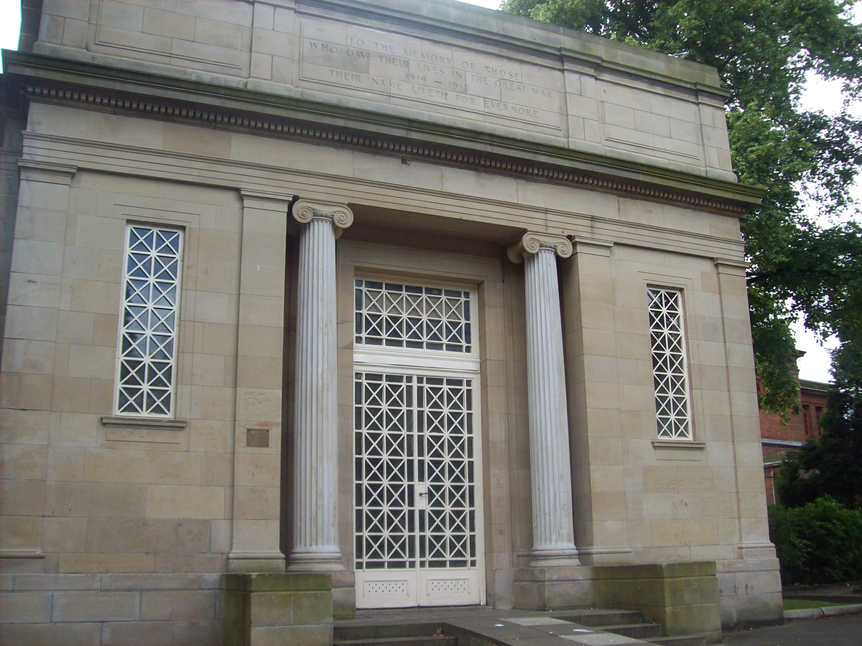 E